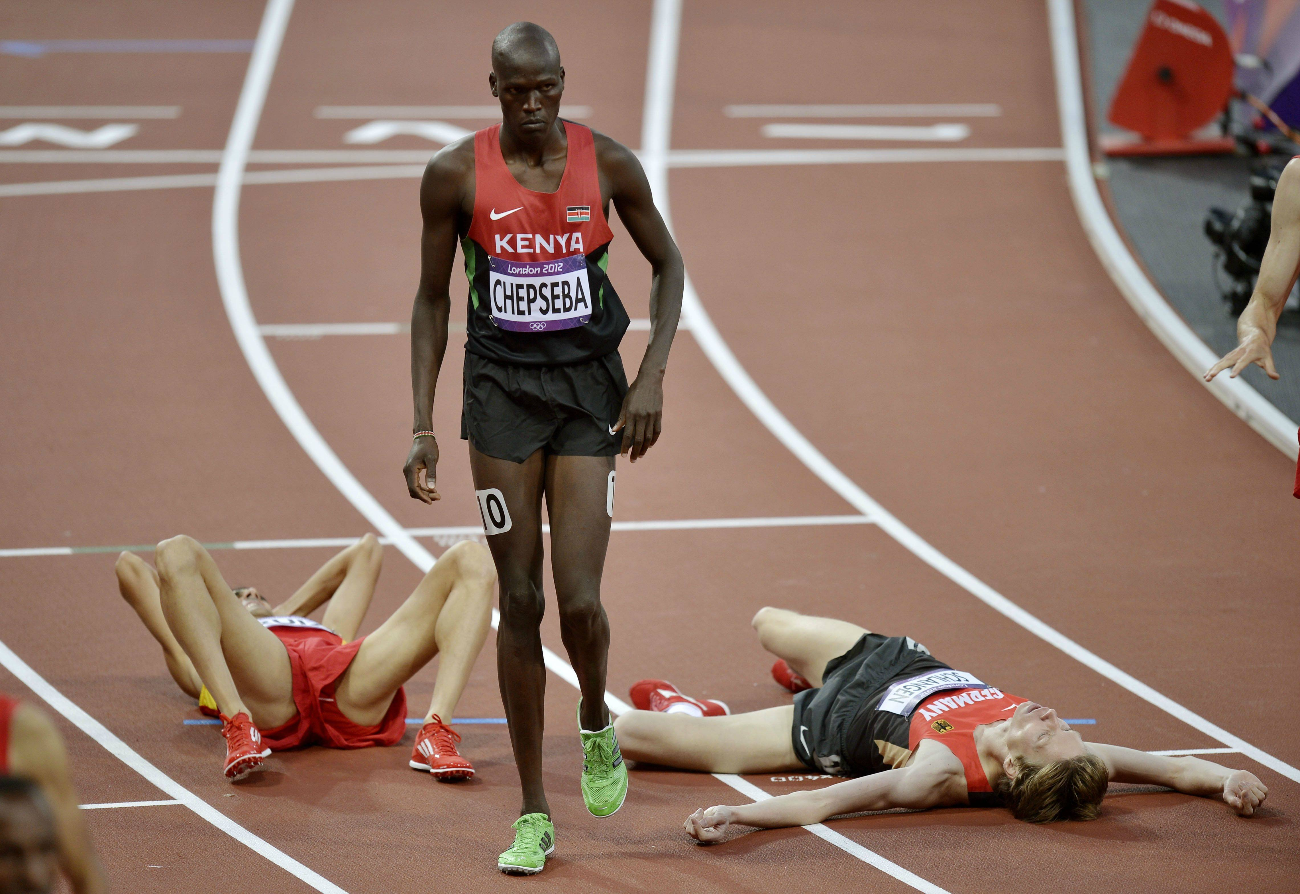 Nixon Kiplimo Chepseba, last man standing at a past race